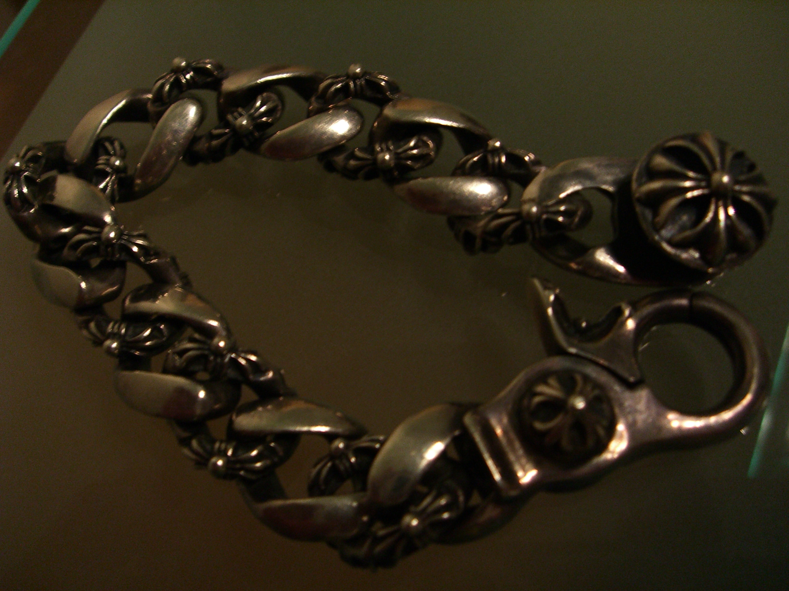 A picture taken by me.